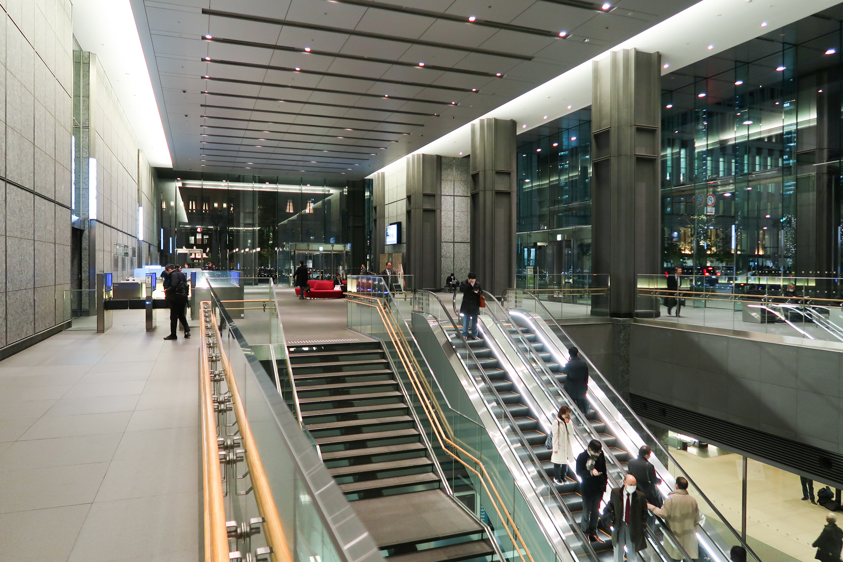 Shin-Marunouchi Building Office Lobby